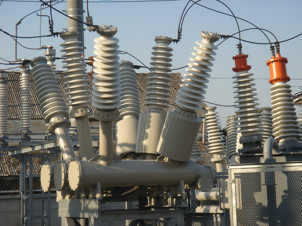 high-voltage switchgear for three phases; Katori area, JapanPower Plant